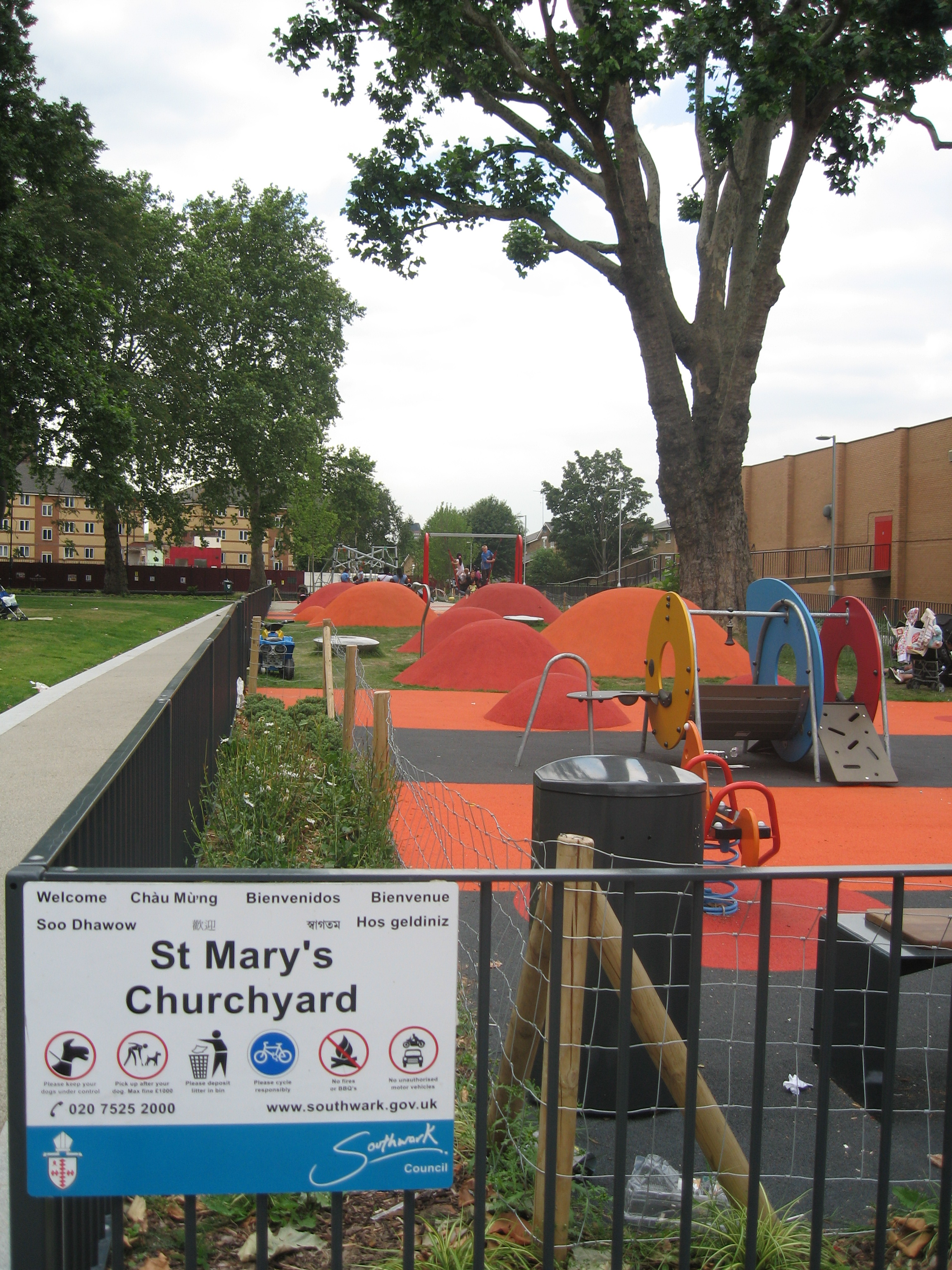 St. Mary's Churchyard playground 2008 (with red mounds reminiscent of archery butts), Newington Butts.